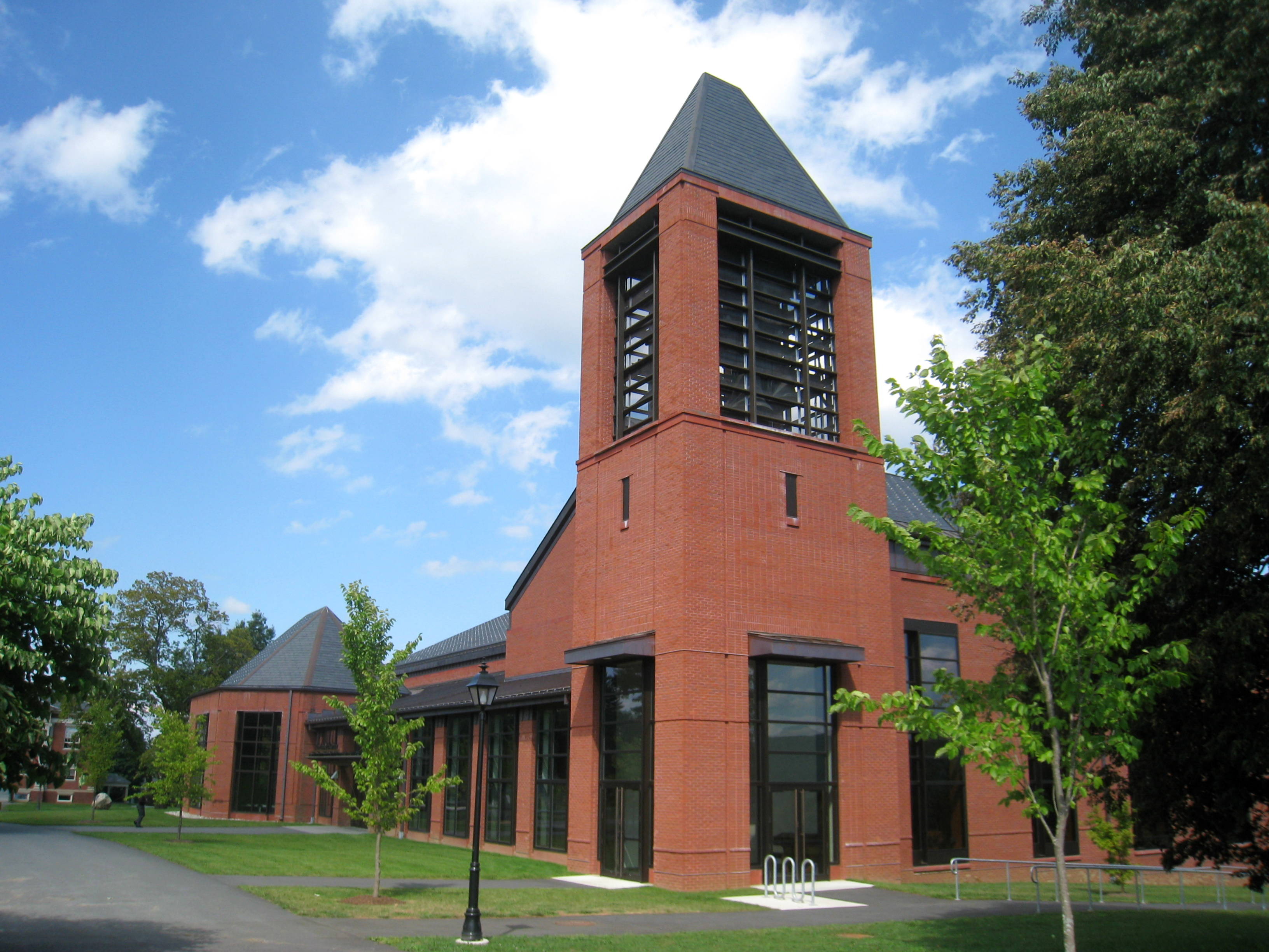 Rhodes Art Center, Northfield Mount Hermon School, Gill, Massachusetts, USA.